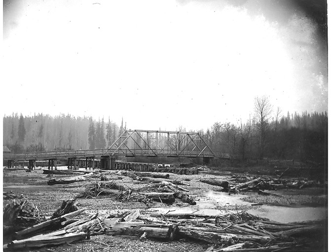 Text from Kiehl log: Bridge over Cedar River. October, 1895. Album 1.007 Subjects (LCTGM): Logs Subjects (LCSH): Bridges--Washington (State)--Cedar River (King County); Cedar River (King County, Wash.); Rivers--Washington (State)--King County